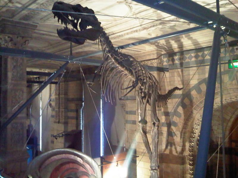 Gorgosaurus libratus (formerly Albertosaurus) skeleton at the Natural History Museum in London, England.